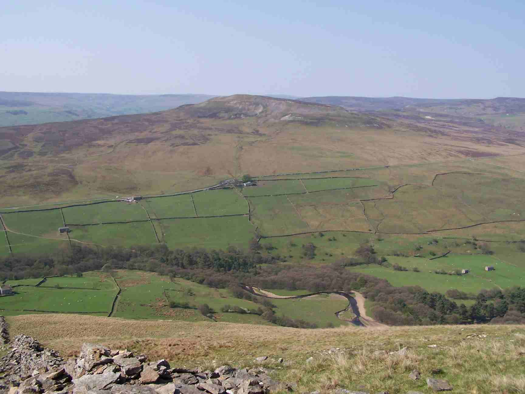 Calver Hill seen from Fremington Edge on the opposite side of lower Arkengarthdale. The Arkle Beck can be seen in the valley bottom as it flows down towards Reeth to join the River Swale. Personal photograph taken by Mick Knapton on May 10th 2006